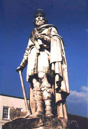 Statue of Alfred the Great in Wantage, England (by DJ Clayworth). Photo lightened 15/12/06.